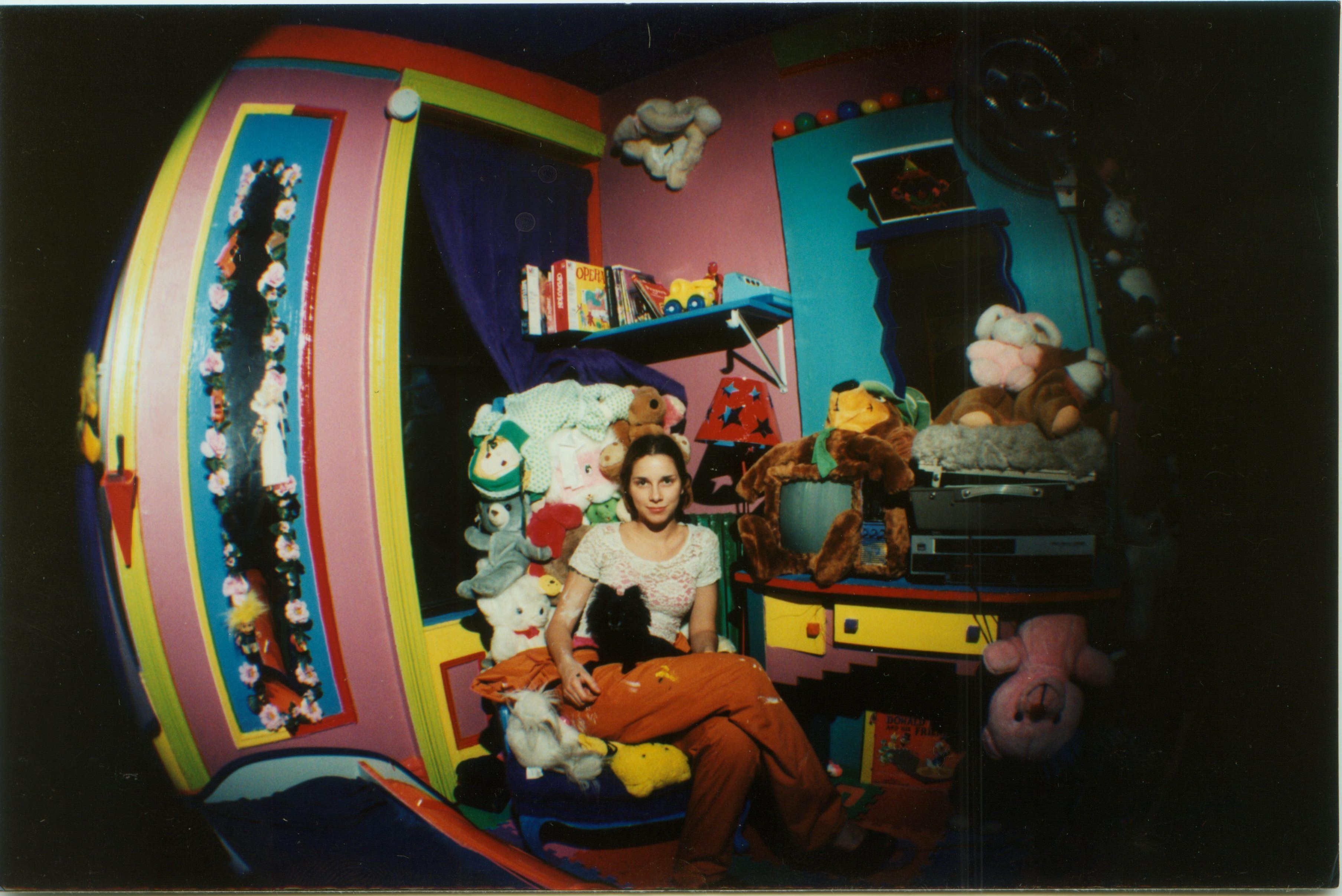 Berlin Hotel Louise